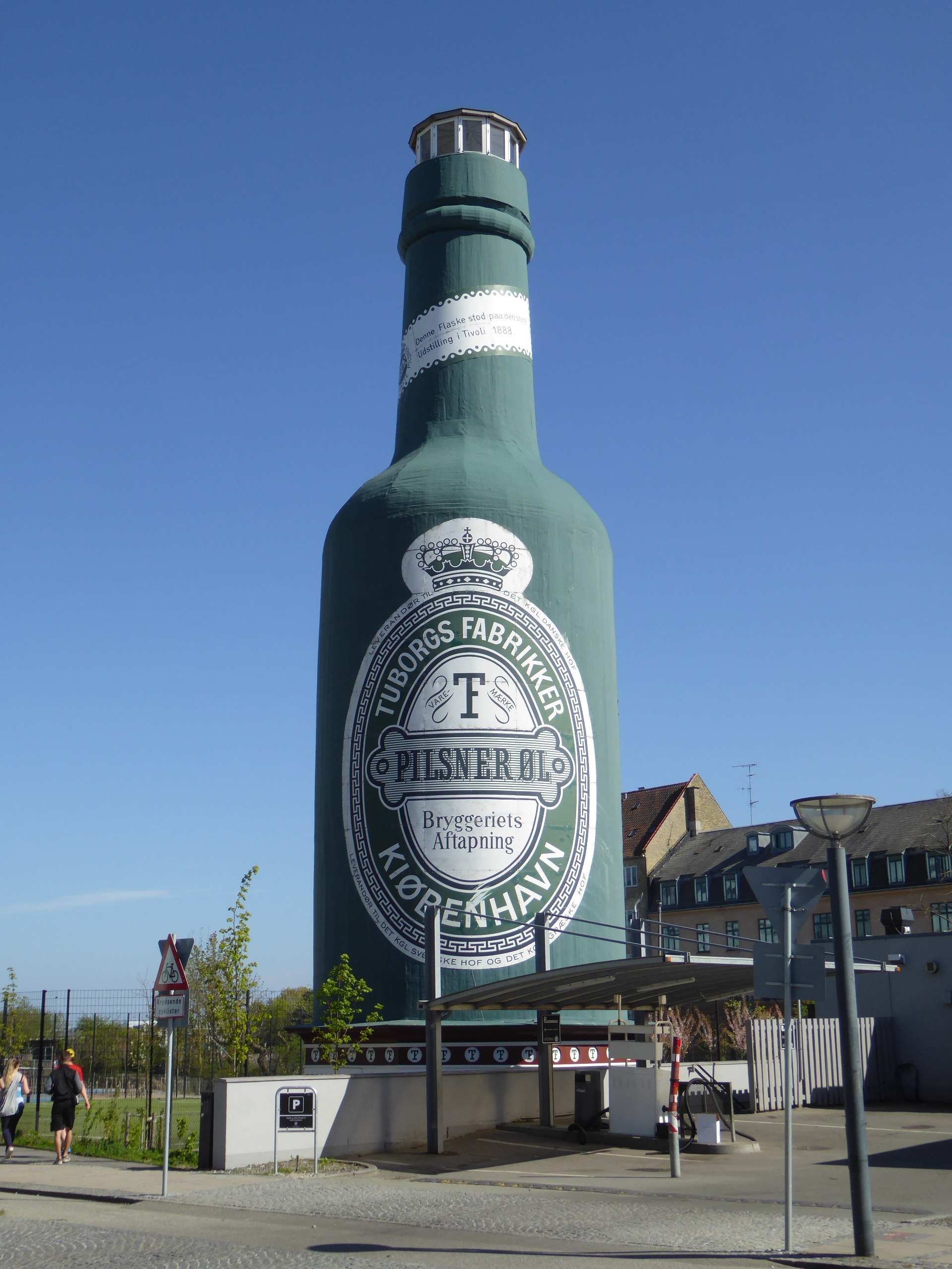 The old tower Tuborgflasken (the Tuborg Bottle) in Hellerup in Copenhagen. It was originally build as an observation tower by the brewery Tuborg for Nordic Exhibition at Tivoli in 1888. Afterwards it was moved to the brewery area in Hellerup. It has been closed for the public since a long time ago.